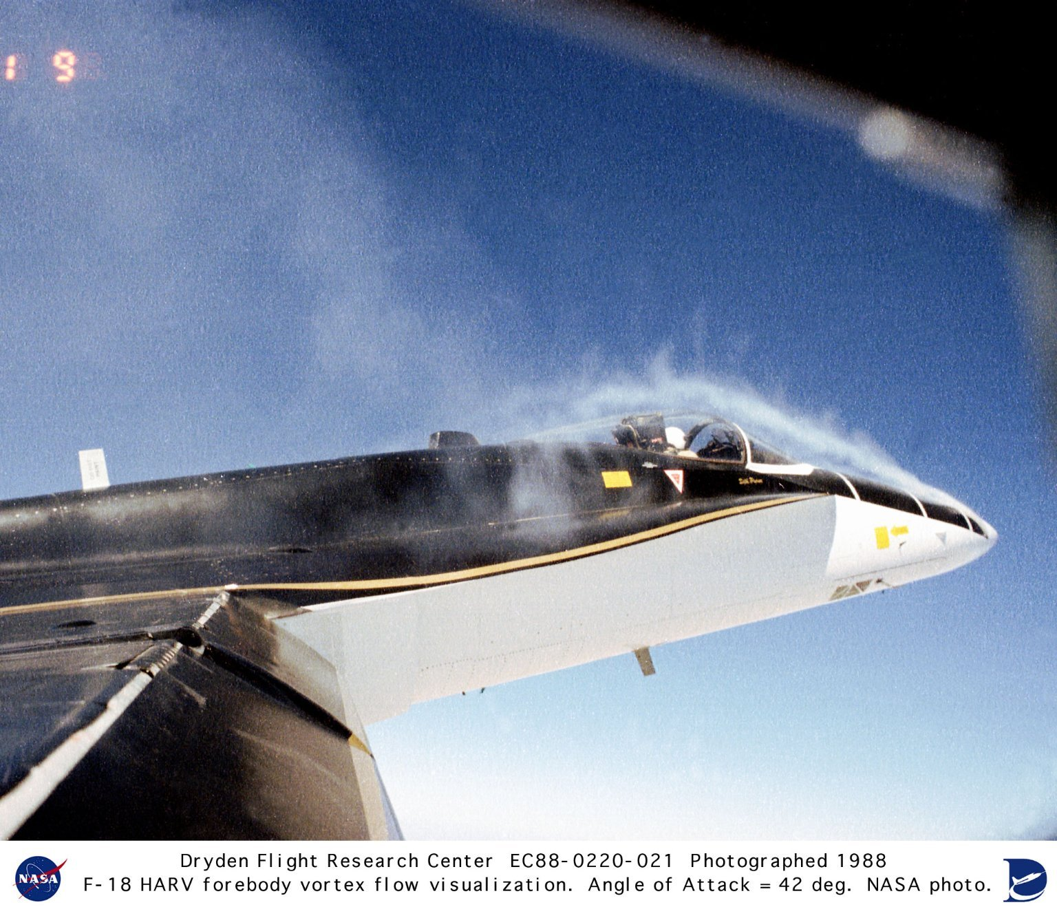 Smoke generators and yarn tufts are used for flow visualization studies on an F/A-18 flown by NASA's Dryden Flight Research Center, Edwards, California, in its High Alpha Research Vehicle (HARV) program. The aircraft is at about 42 degrees angle of attack in this photo, taken with a wing mounted camera. The aircraft was modified with a thrust vectoring system to further investigate high angle of attack flying. The program was conducted jointly with NASA's Langley Research Center. NASA Identifier: NIX-EC88-0220-021